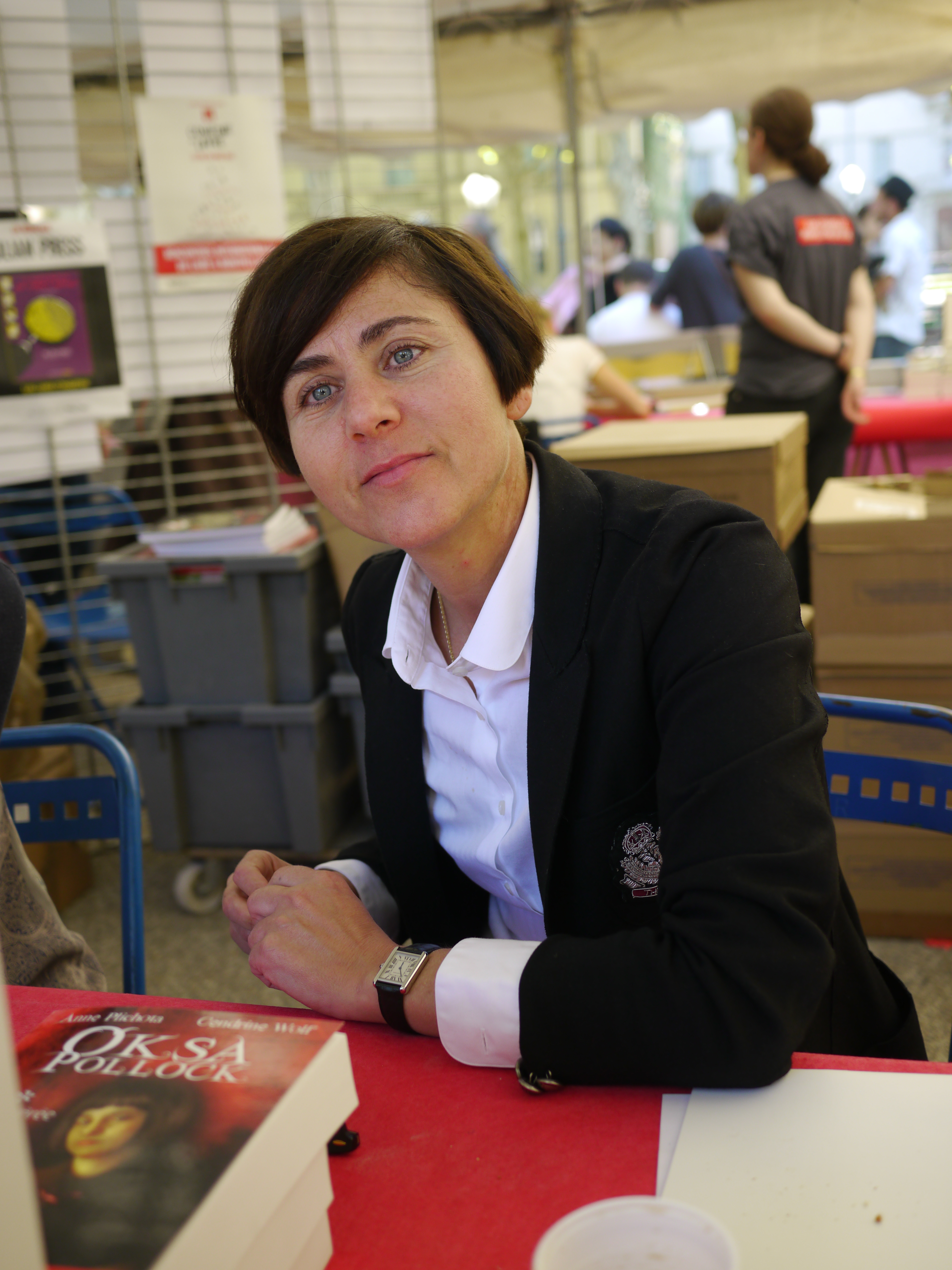 Comédie du Livre 2011 edition of Montpellier